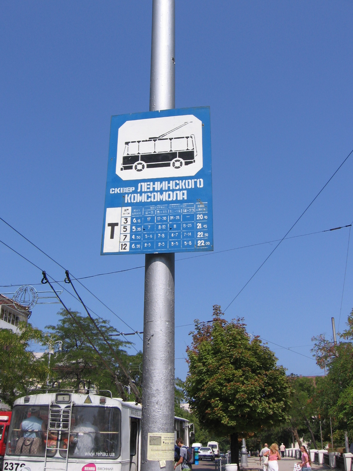 Trolleybus stop "Сквер Ленинского Комсомола" ("The Park of the Lenin Comsomol") in Sevastopol with a timetable for the 3, the 5, the 7 and the 12 trolleybuses.